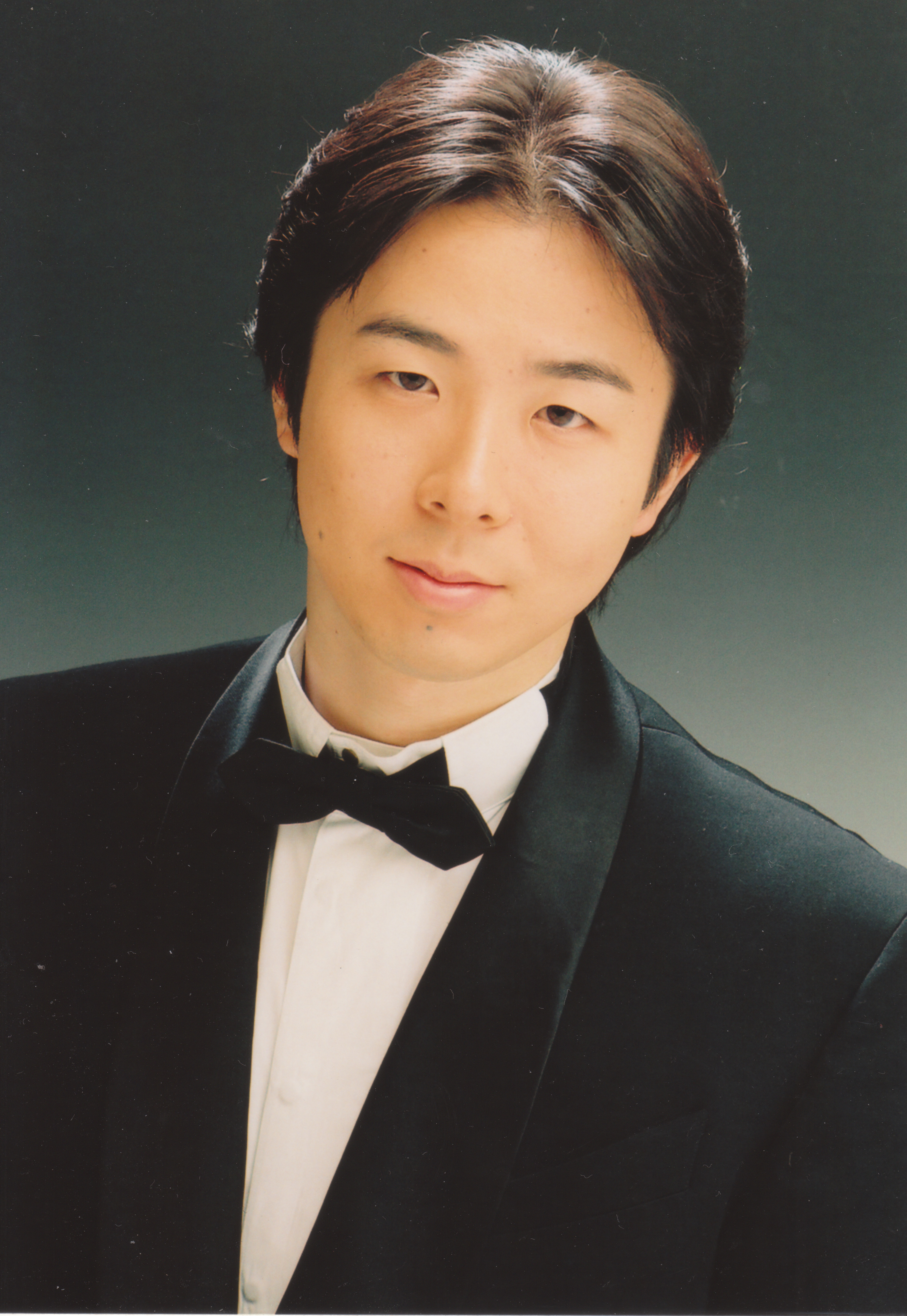 picture